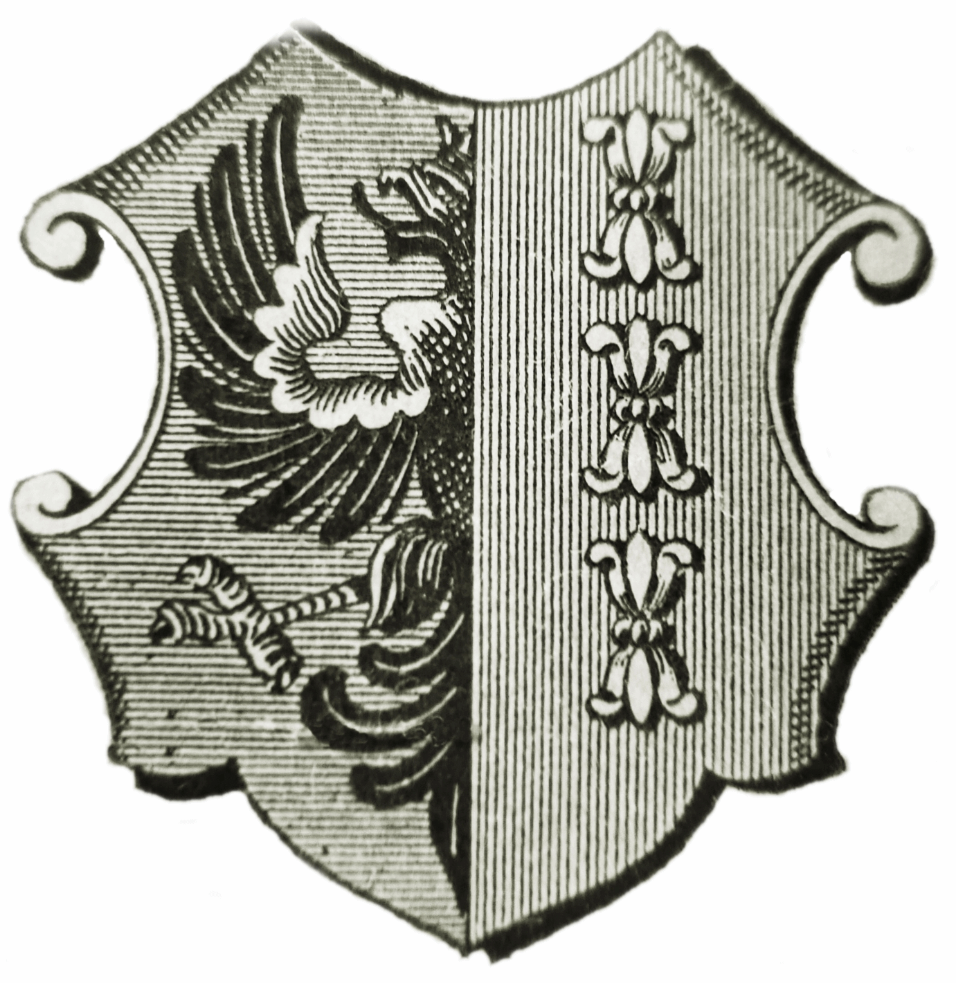 Trade paper of mayor of Bielsko, Austria-Hungary at the turn of the 20th century.